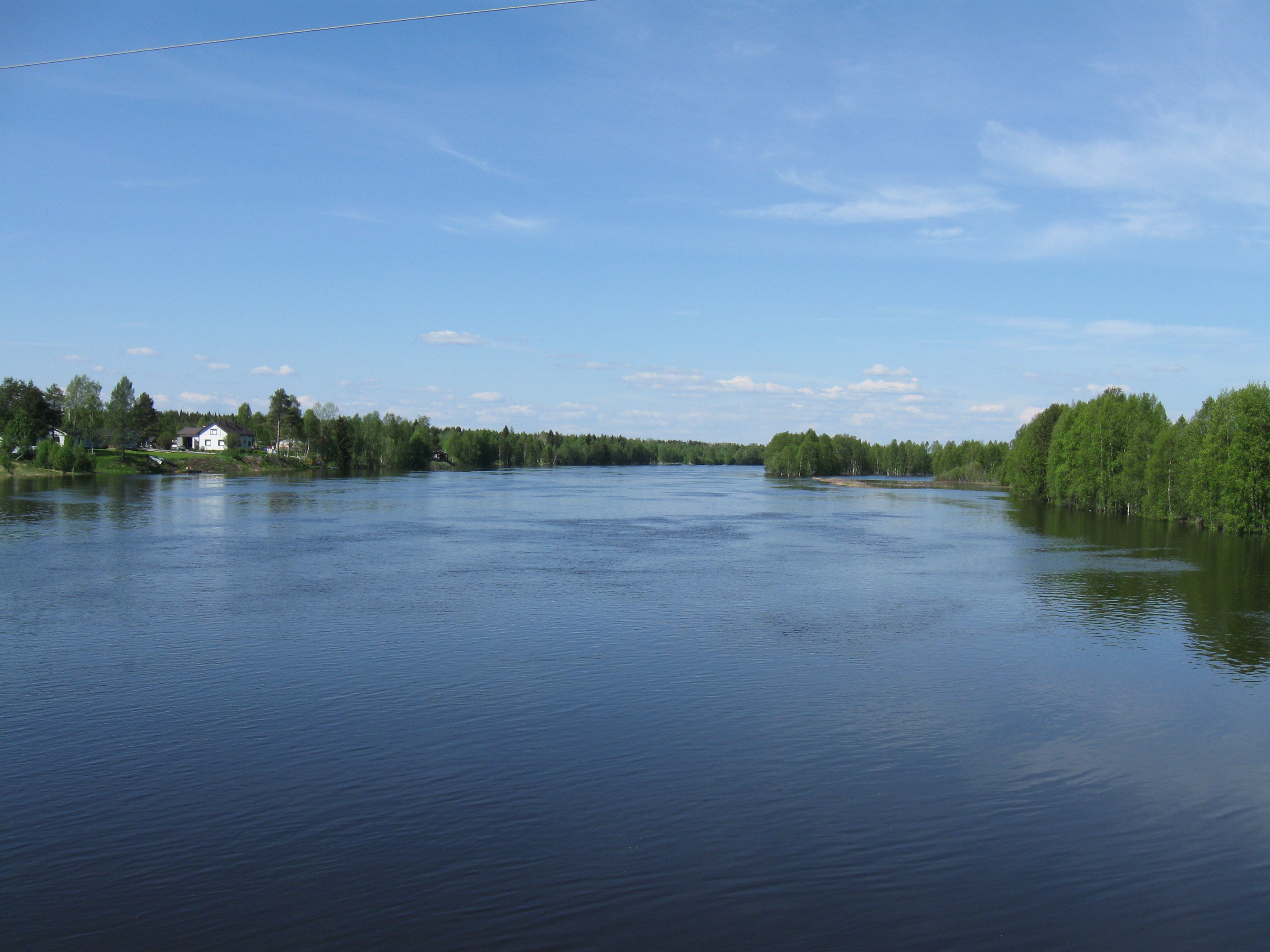 The river Liakanjoki in Yli-Liakka, Tornio, Finland, seen upstream from the bridge of the regional road 927.